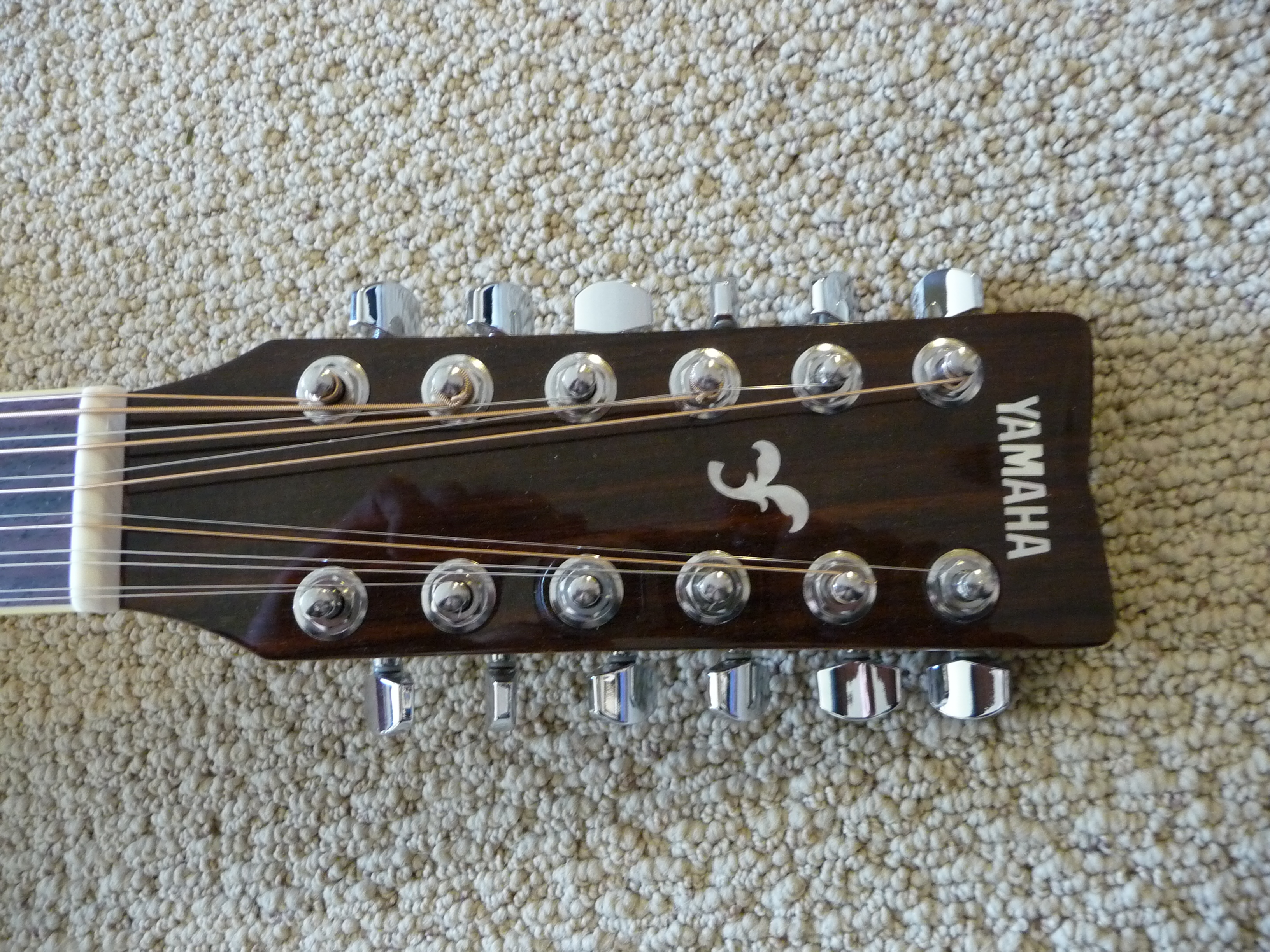 Yamaha FG720S-12 headstock with Bone Nut installed Front View of Bone Nut carved by Ben.